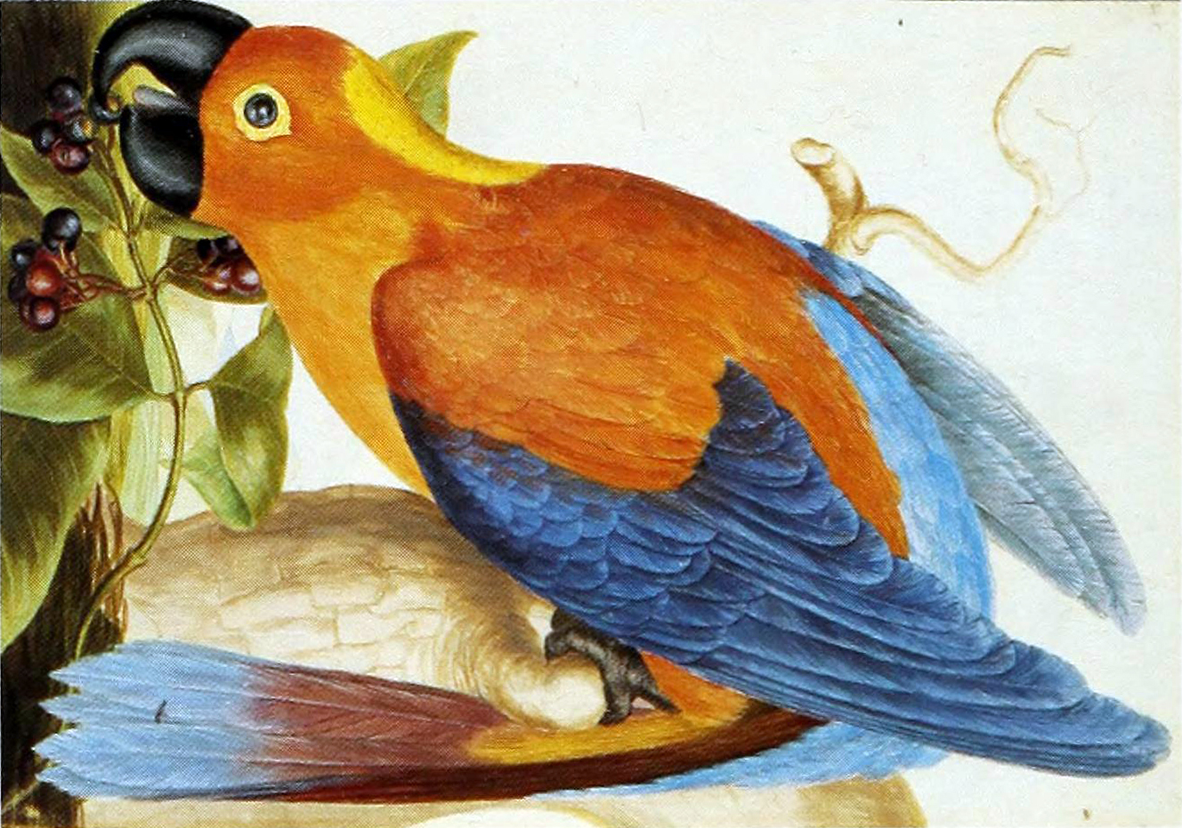 Possible depiction of the Cuban Macaw in Jamaica.